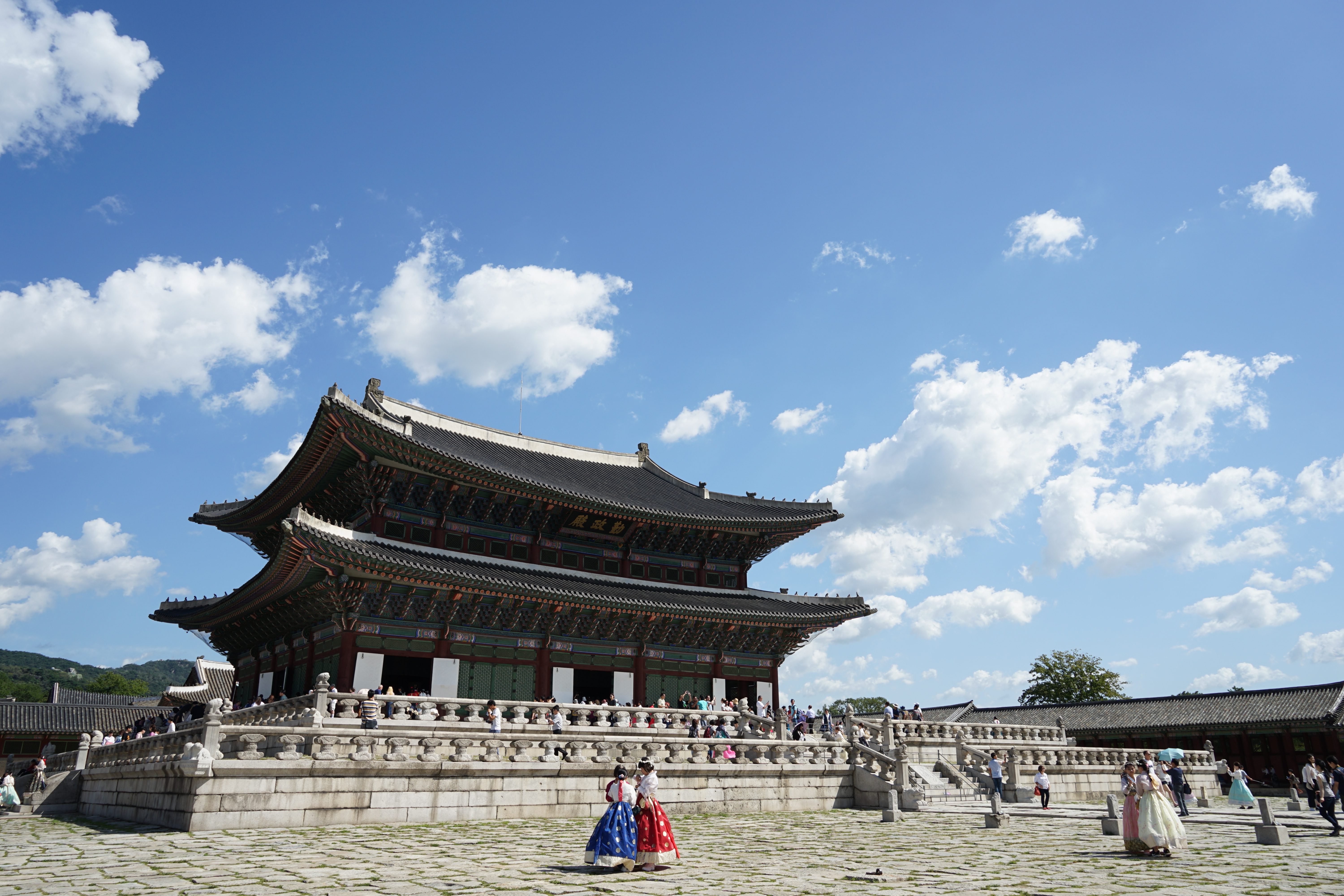 Geunjeongjeon, Gyeongbokgung.